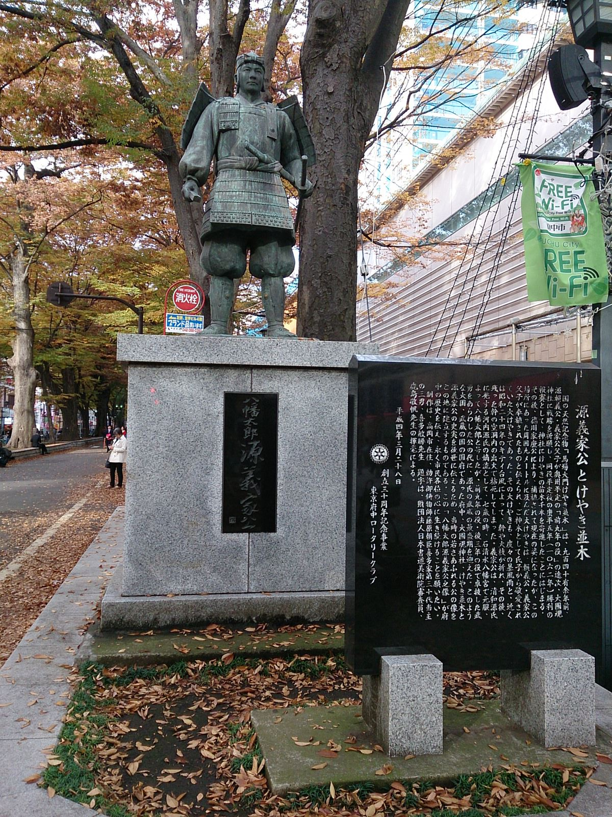 keyakinamiki-dori,fuchu,tokyo.